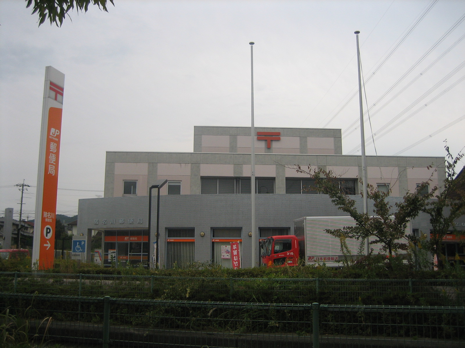 Inagawa post office in Hyogo, Japan